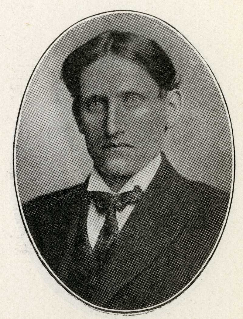 Minnesota State Representative Anton J. Rockne, in a photograph from the 1913-1914 Minnesota Legislative Manual